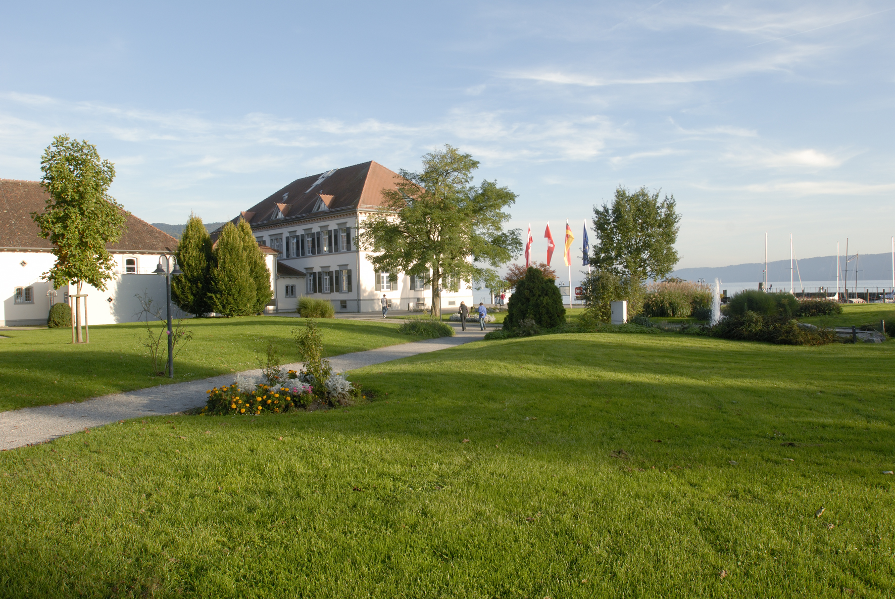 Zollhaus in Ludwigshafen